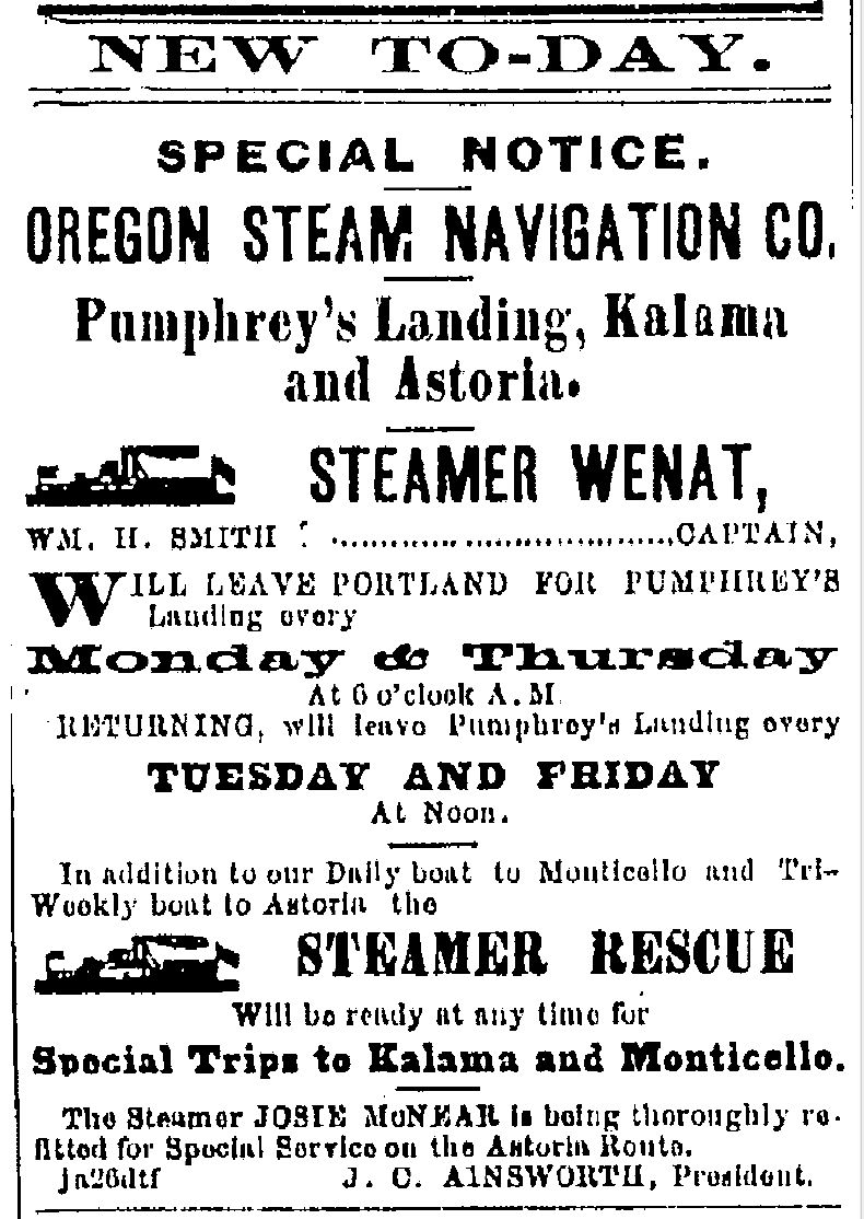 Wenat, Rescue, Josie McNear, and Oregon Steam Navigation Company, advertisement.